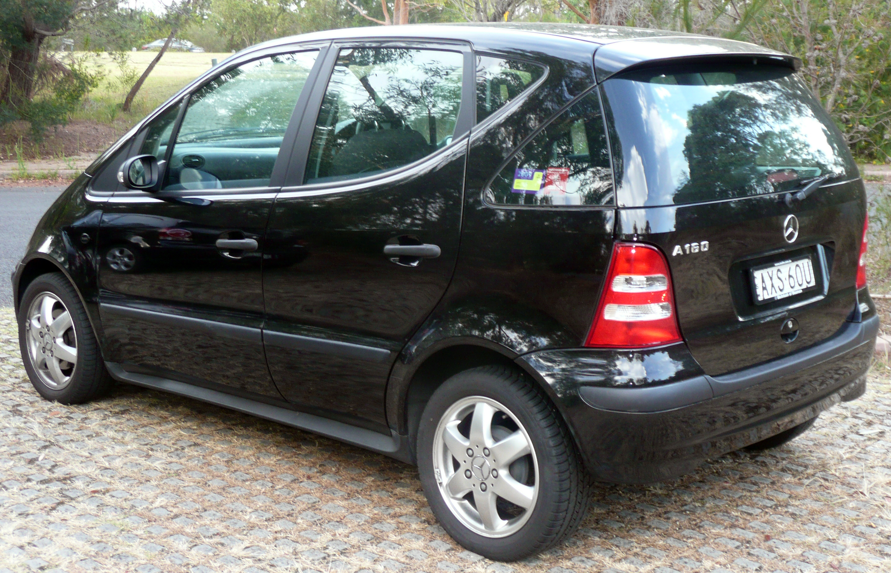 2003–2004 Mercedes-Benz A 160 (W 168 MY03.5) Classic hatchback. Photographed in Audley, New South Wales, Australia.